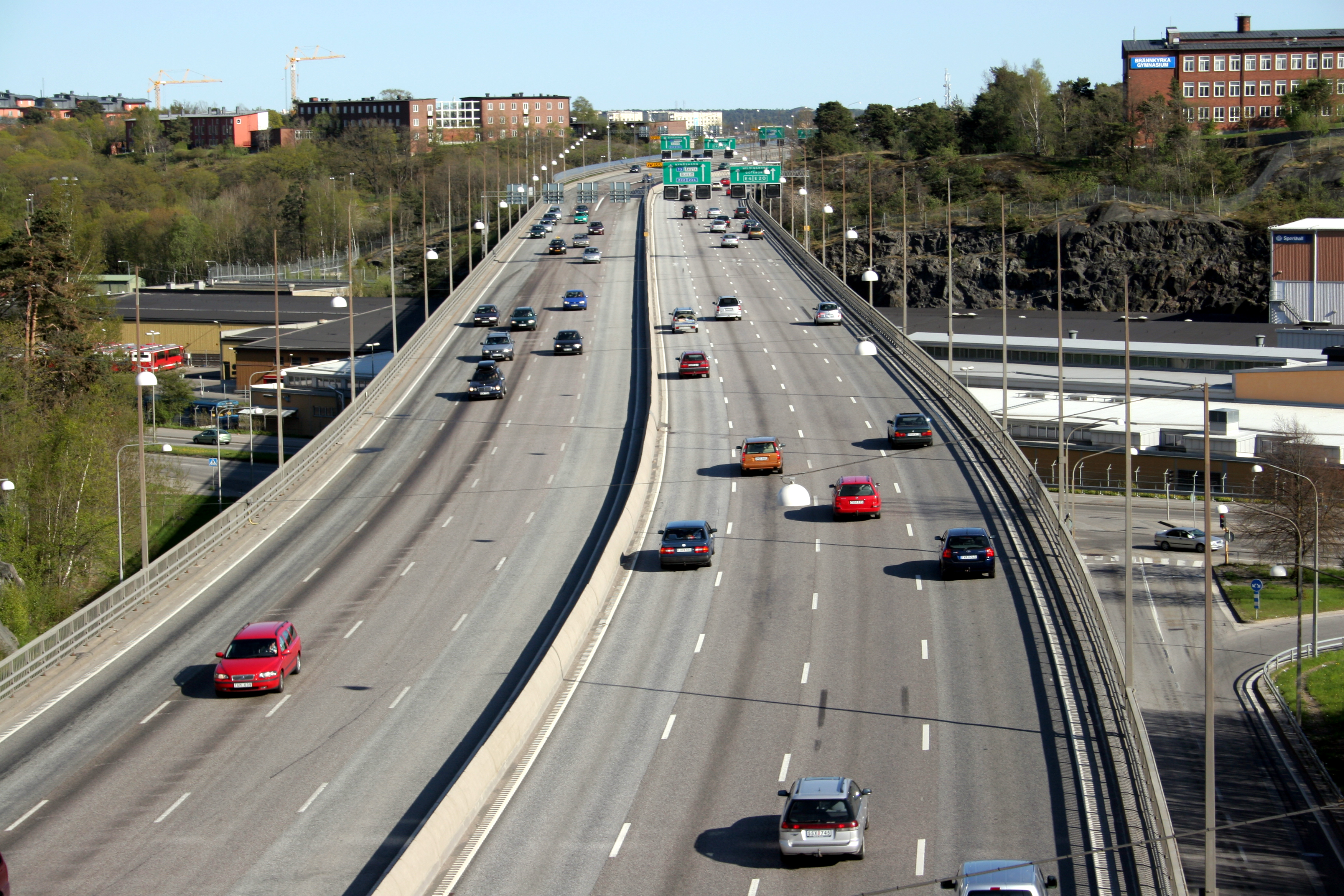 Essingeleden/E4, motorway (autobahn) in Stockholm, Sweden. In the back of the picture is Trafikplats Nyboda. Picture taken from Nybodahöjden.